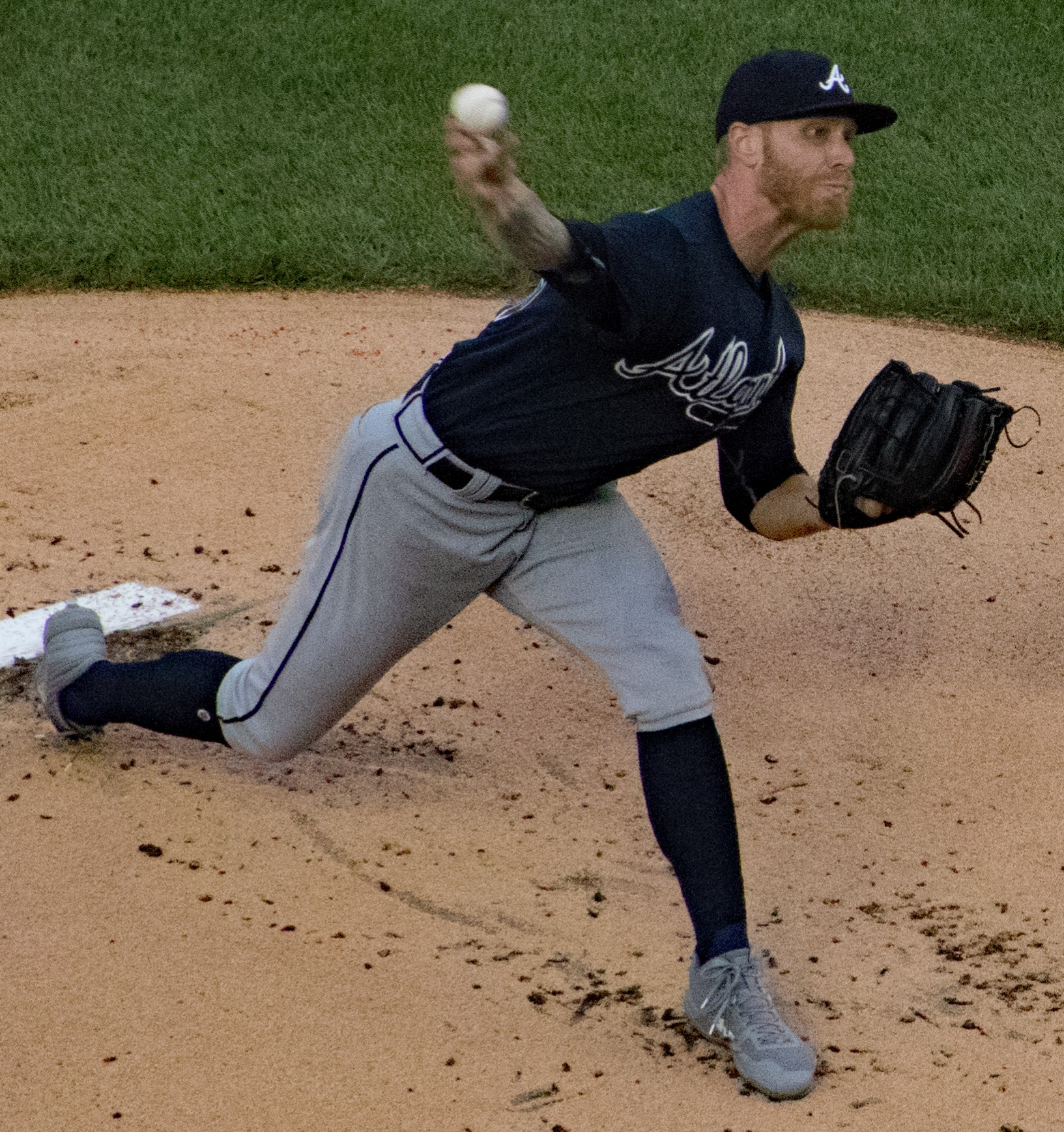 Mike Foltynewicz